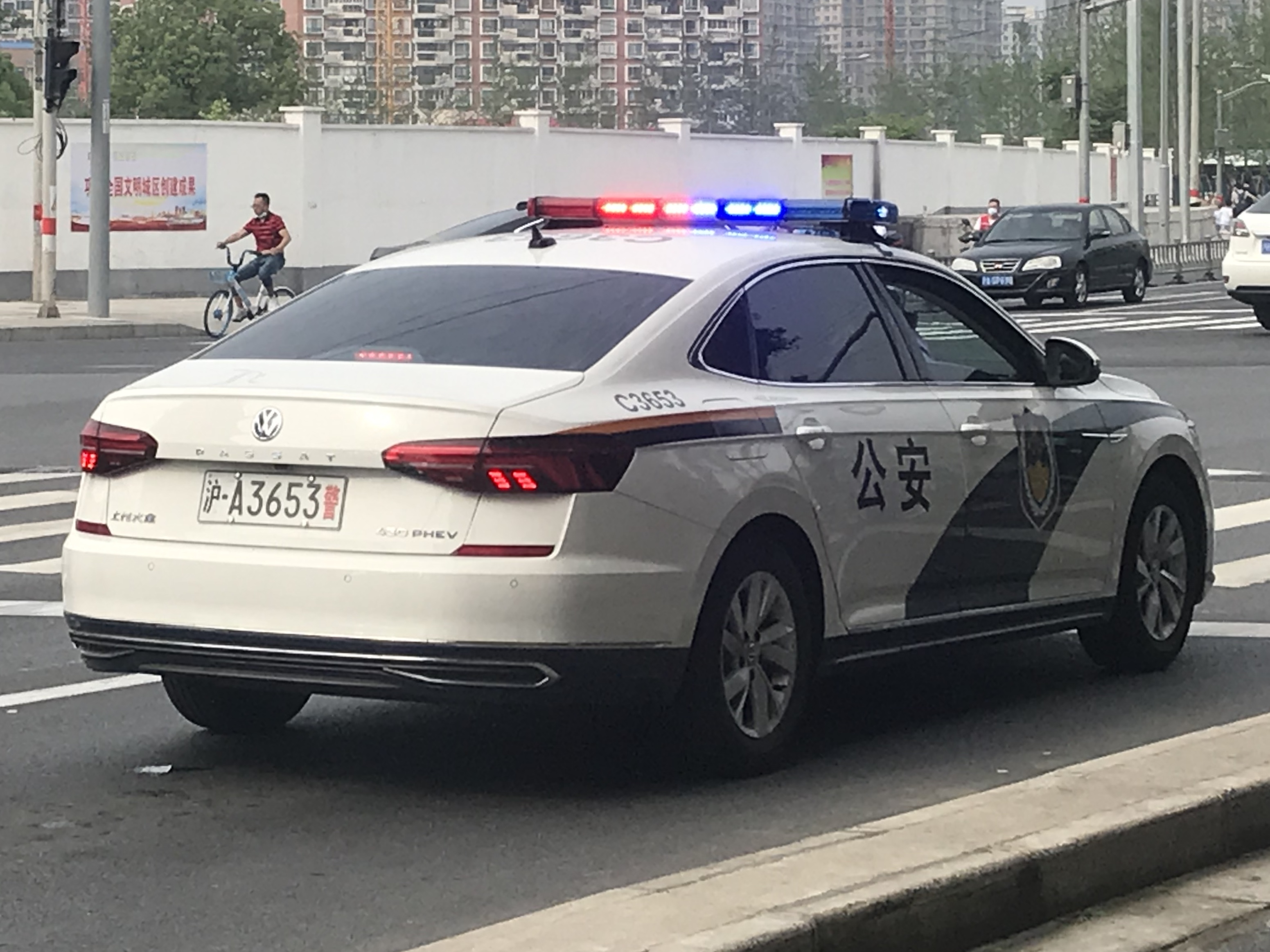 Volkswagen Passat NMS II Chinese spec